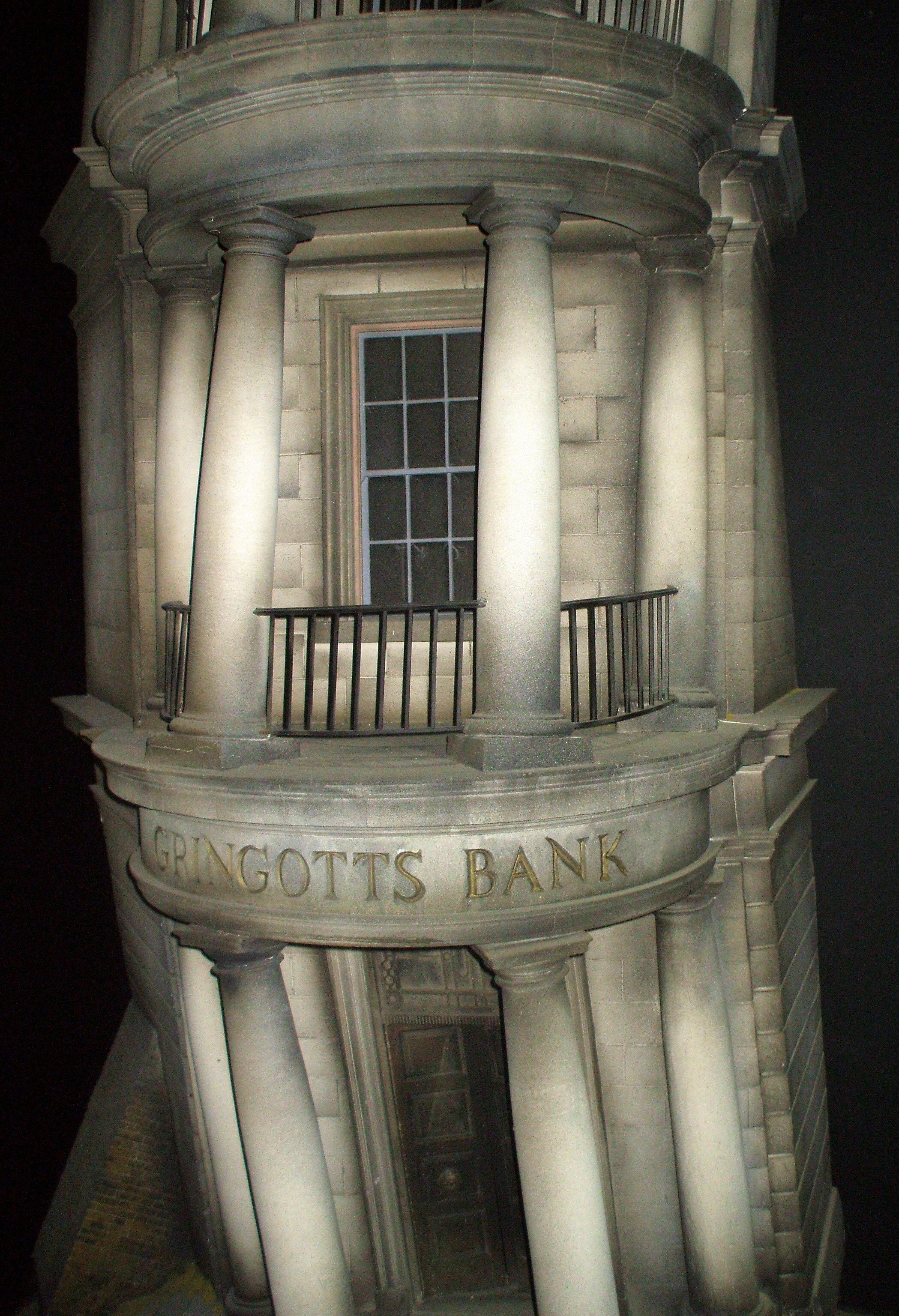 Gringotts Wizarding Bank, Diagon Alley, Harry Potter film set at Warner Bros. Studios, Leavesden, UK